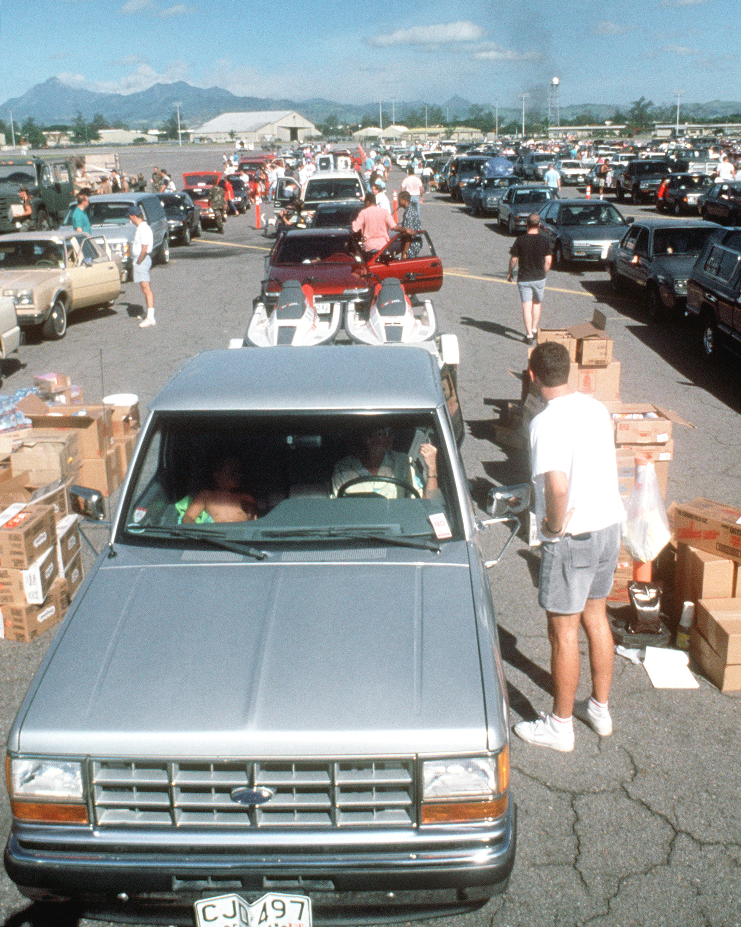 Military and civilian personnel stop at a distribution point to collect food and water for their trip to Naval Station, Subic Bay, during the evacuation of Clark Air Base. Mt. Pinatubo is visible in the background on the upper left corner.